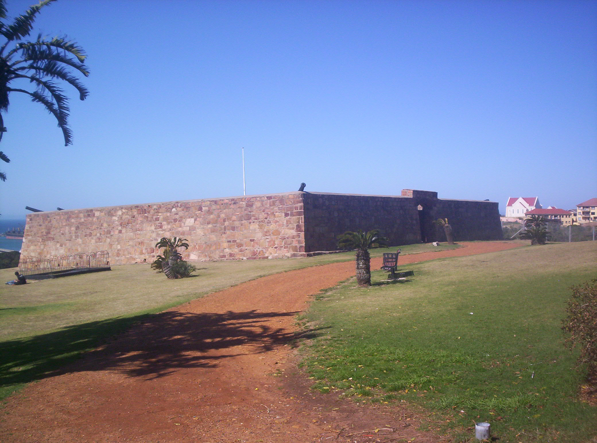 A stone fort built in 1799 by British troops to defend the mouth of the Baakens River.